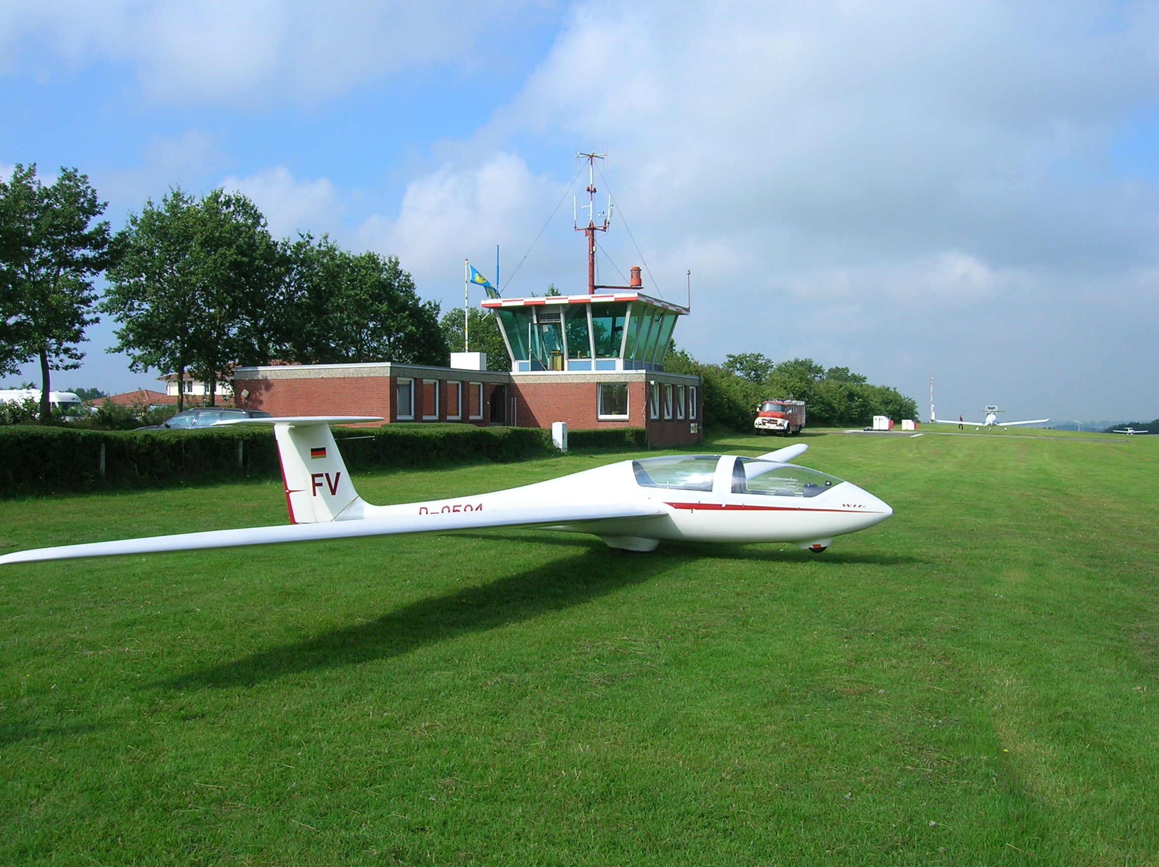 Sankt Michaelisdonn airport: Tower